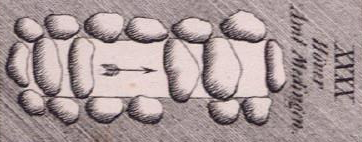 Megalithic tomb Höver 1, Sprockhoff-No 782